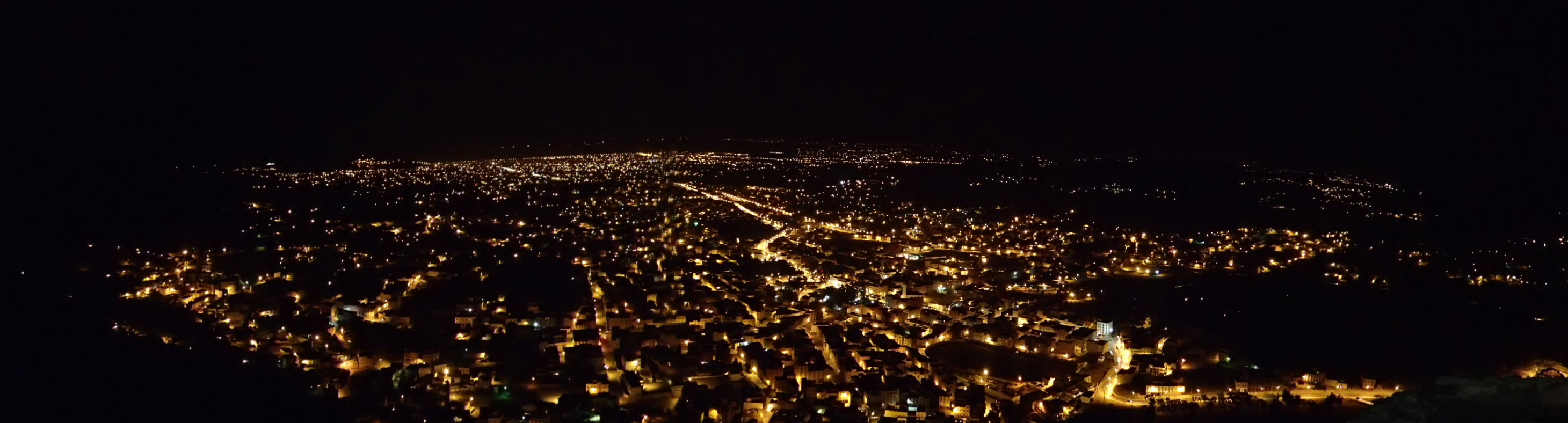 Panorama of the Metropolitan Nador, Morocco, taken by night from Azrou Hammar mountain.